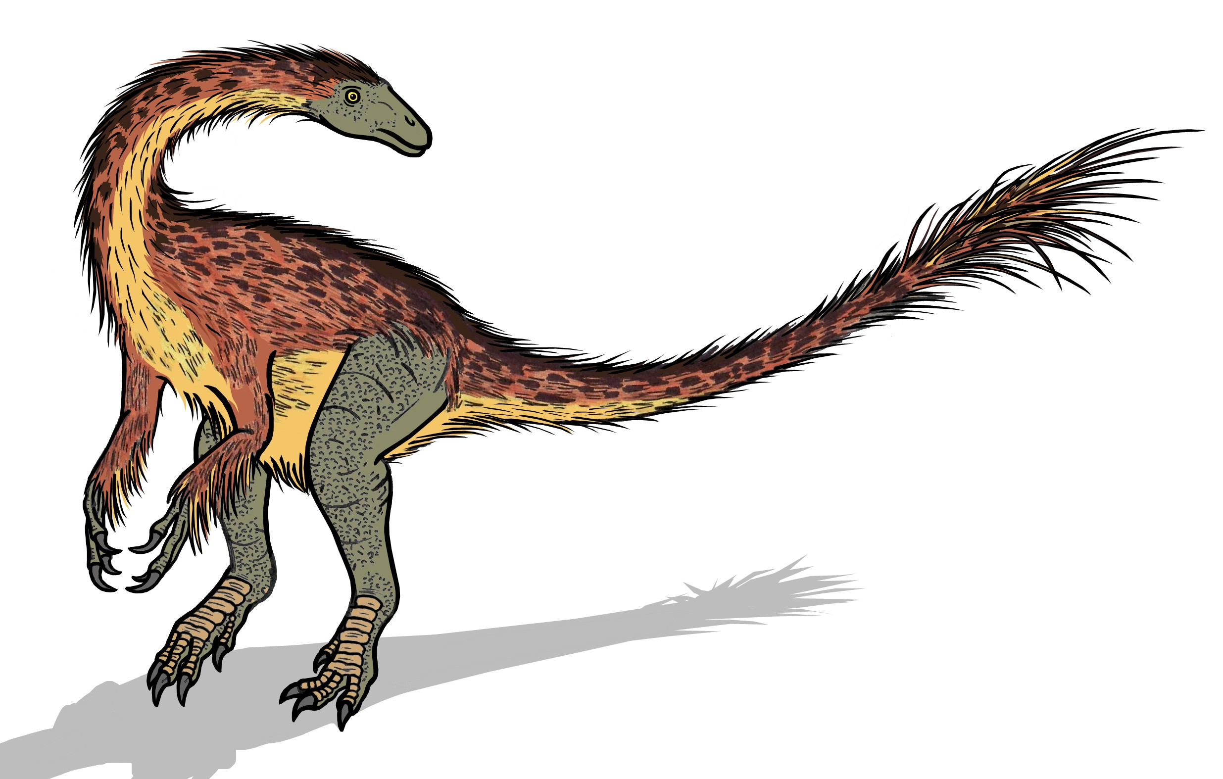 Falcarius utahensis, a theropod dinosaur (Therizinosauroidea) found in Utah, USA. Pencil drawing, colored by hand and partly in computer. Based on this skeleton. See also the skeleton here.